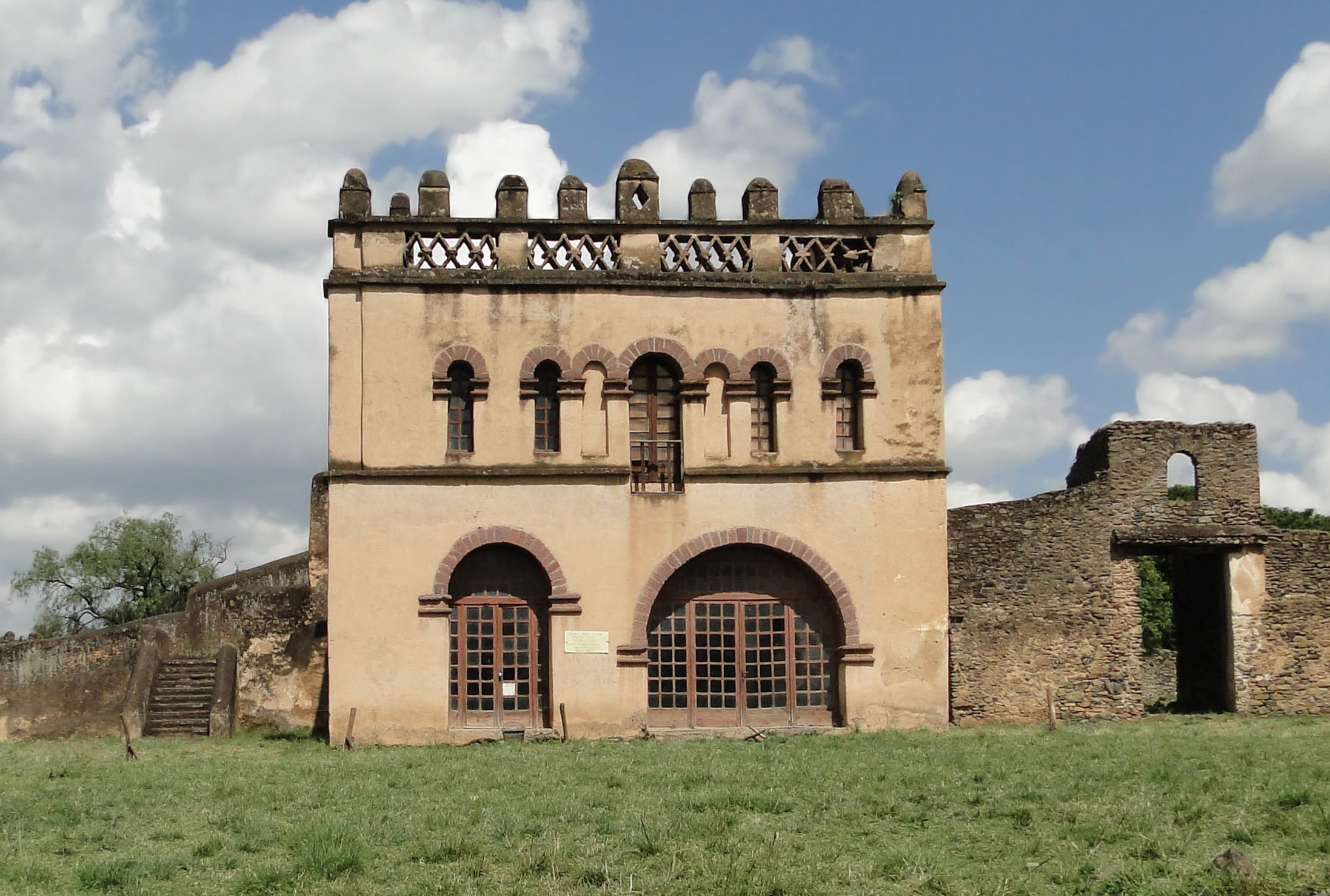 Library of Yohannes I in the Fasil Ghebbi, Gondar, Ethiopia